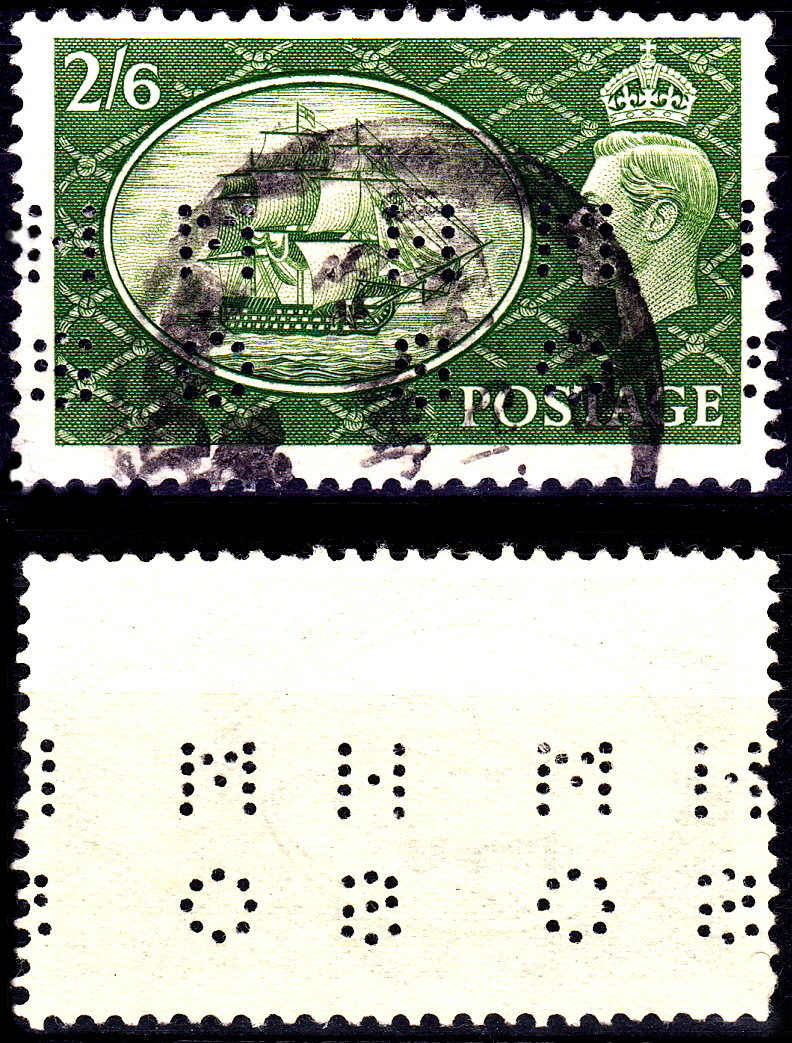 1951 2/6 British festival stamp with perfin. Front (top) and rear (bottom).